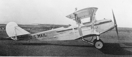 Aeromarine AM-3 mailplane